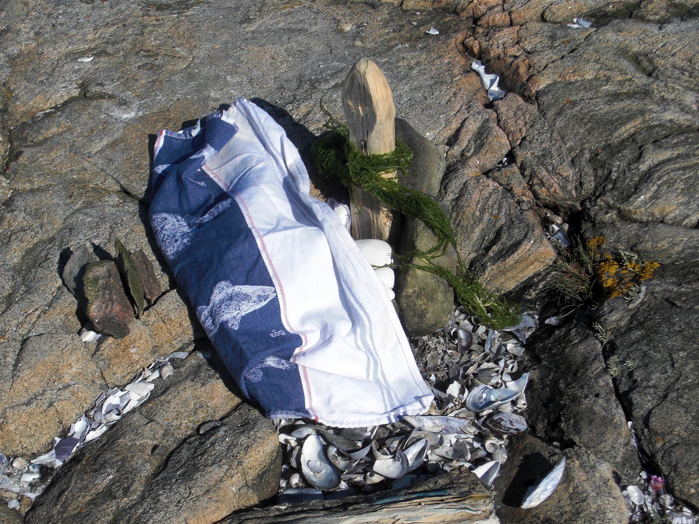 Forn Sed: A simple altar in form of a cloth on the ground and a simple cult image depicting Njord (Njorðr, Njörður), the Norse god of the Sea, at a special blót directed to Njord on 12th May 2009 at Brännö in the Gothenburg arcipilago, Sweden. The cult image was made from driftwood on the spot. The picture was taken before the ceremony started so the votive offerings was still hidden under the cloth. The participants were members of the Swedsih Asatru Assembly (now Forn Sed Sweden).